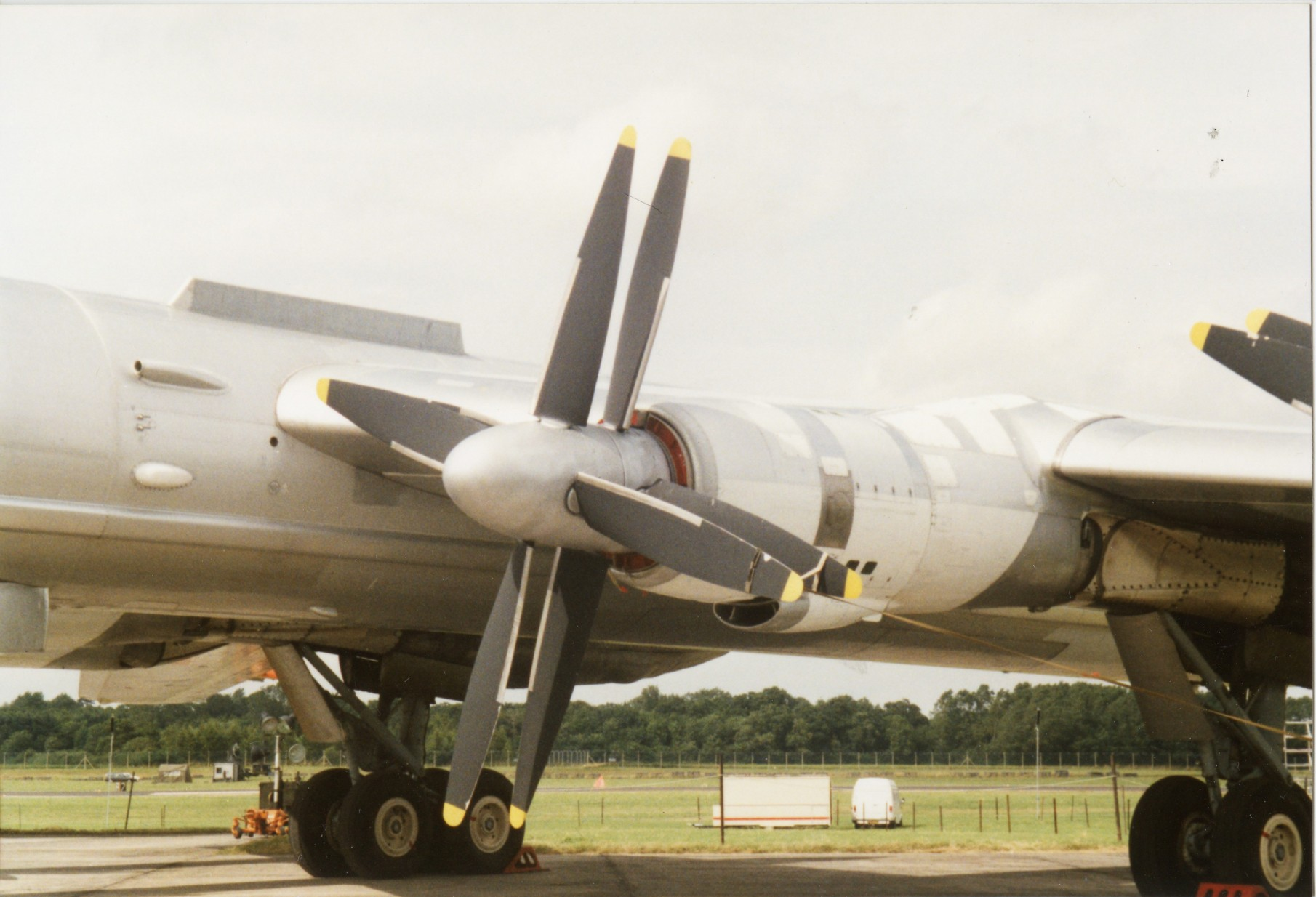 Kuznetsov NK-12M Turbo-prop engine, RIAT Fairford 1993, on a Tu-95